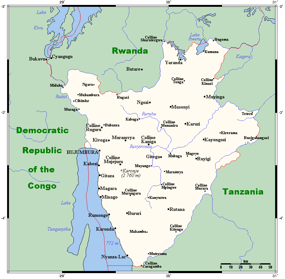 A map showing Burundi's cities, main towns and selected villages. This map's source is here, with the uploader's modifications, and the GMT homepage says that the tools are released under the GNU General Public License.